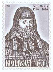 Stamp of Moldova